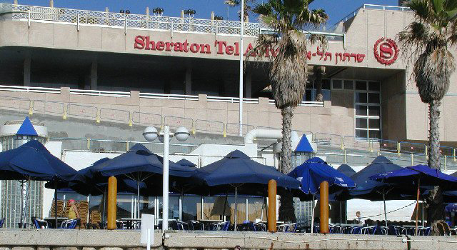 This Image is created by User:Chrissyboi. This image is of the Sheraton Beach Resort Hotel, Tel Aviv, Israel. If you would like to use this image, a linkback to this wikipedia page would be appreciated. Chrissyboi 22:04, 5 May 2007 (UTC)